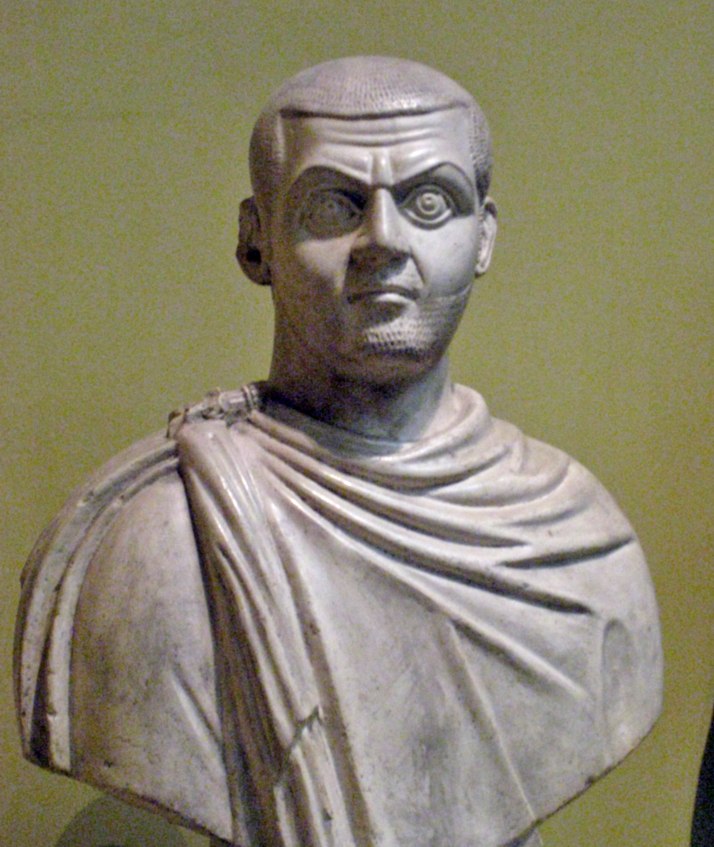 Emperor Maximinus Daia. Cast in Pushkin museum after original in Cairo (material - red porphyry). Another name of original: Portrait of an Emperor, from Athribis, Egypt, porphyry, just over lifesize, late Empire period, 3rd-4th cent. A.D. (Cairo Museum)